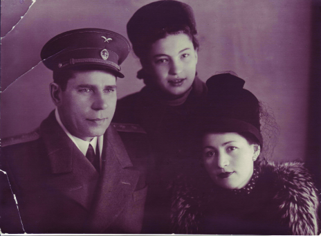 Ivan Samylovsky in Spring 1947, with his wife Maria Samylovskaya and their daughter Galina.